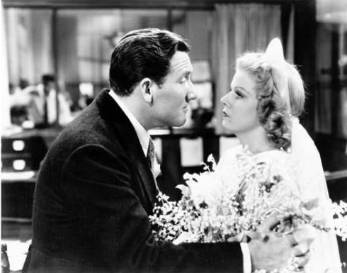 Photo of Spencer Tracy & Jean Harlow taken for film Riffraff (1936). See also film still. No copyright notice.